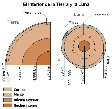 Moon and Earth internal structure.